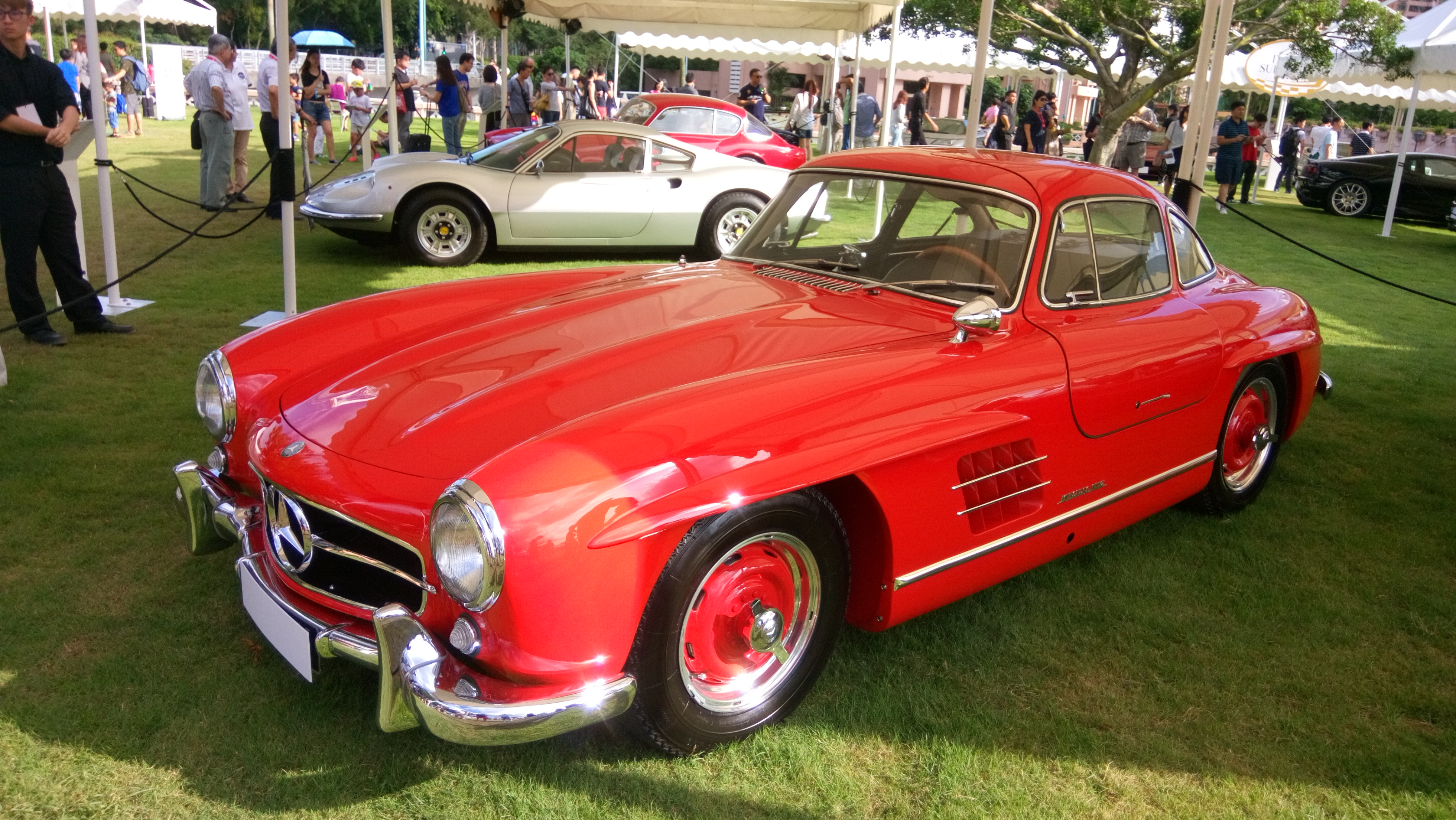 A red Mercedes Benz 300SL in Tuen Mun,Hong Kong